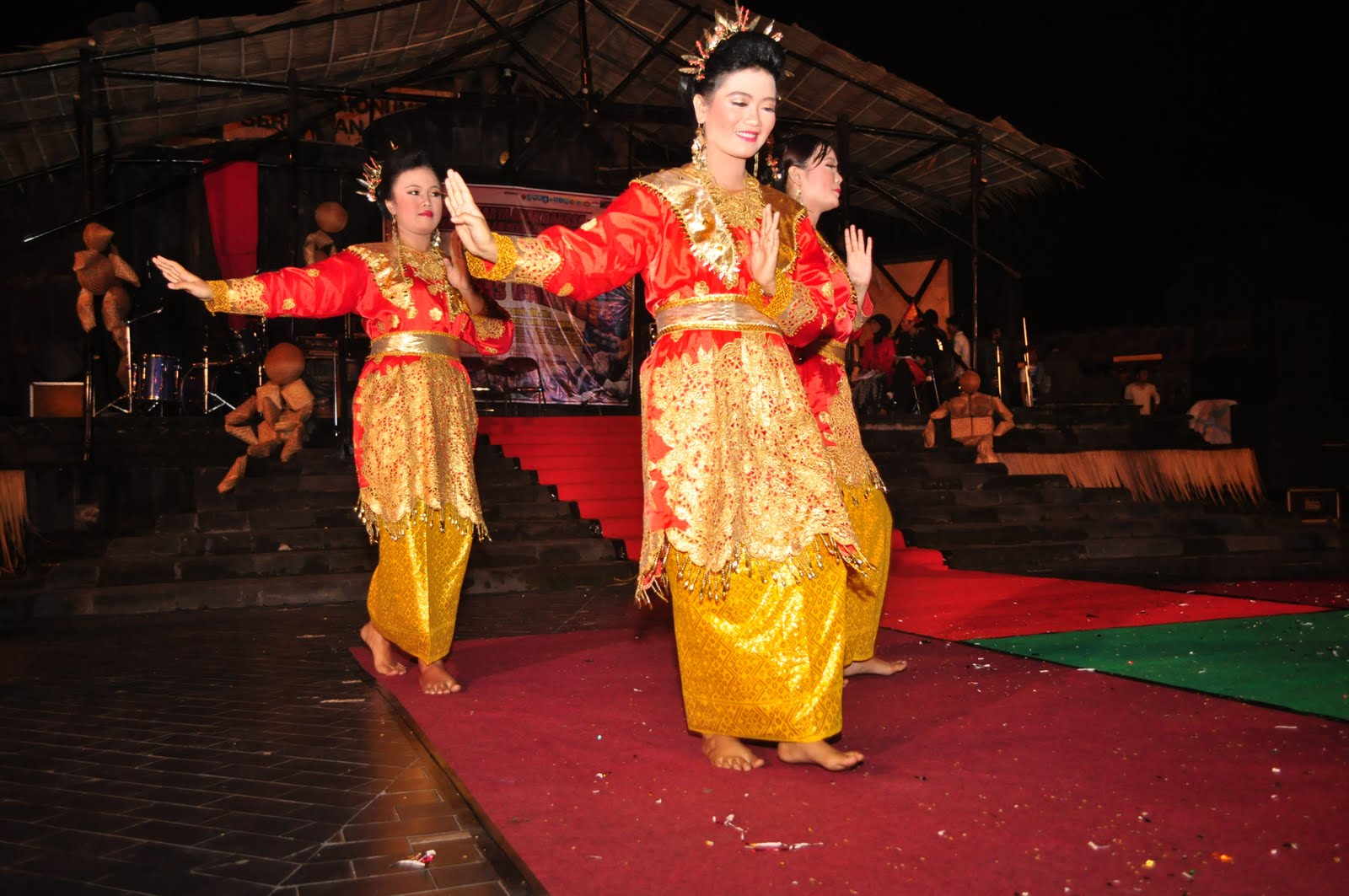 Gandai dance, this dance is often presented when weddings, circumcisions, and customary events that apply in the local area. Gandai dance is accompanied by music from chrysanthemums, drums, and accompanied by singing / vocals in the form of rhymes. In general, Mukomuko district, the Gandai Dancer is a Mukomuko community, believing that the gandai dance which is still productive is offered mainly at weddings.